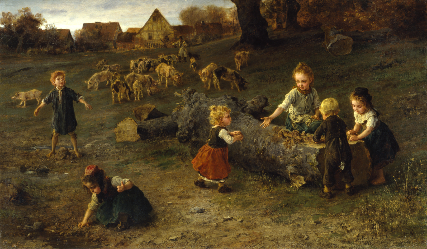 This evening scene showing a girl seated on a log watching children making mudpies was painted while Knaus was living in Dusseldorf, Germany. In the background, a swineherd tends his pigs. A preparatory sketch for the child in the center of composition was acquired by the museum in 1982 (Walters 37.2601).